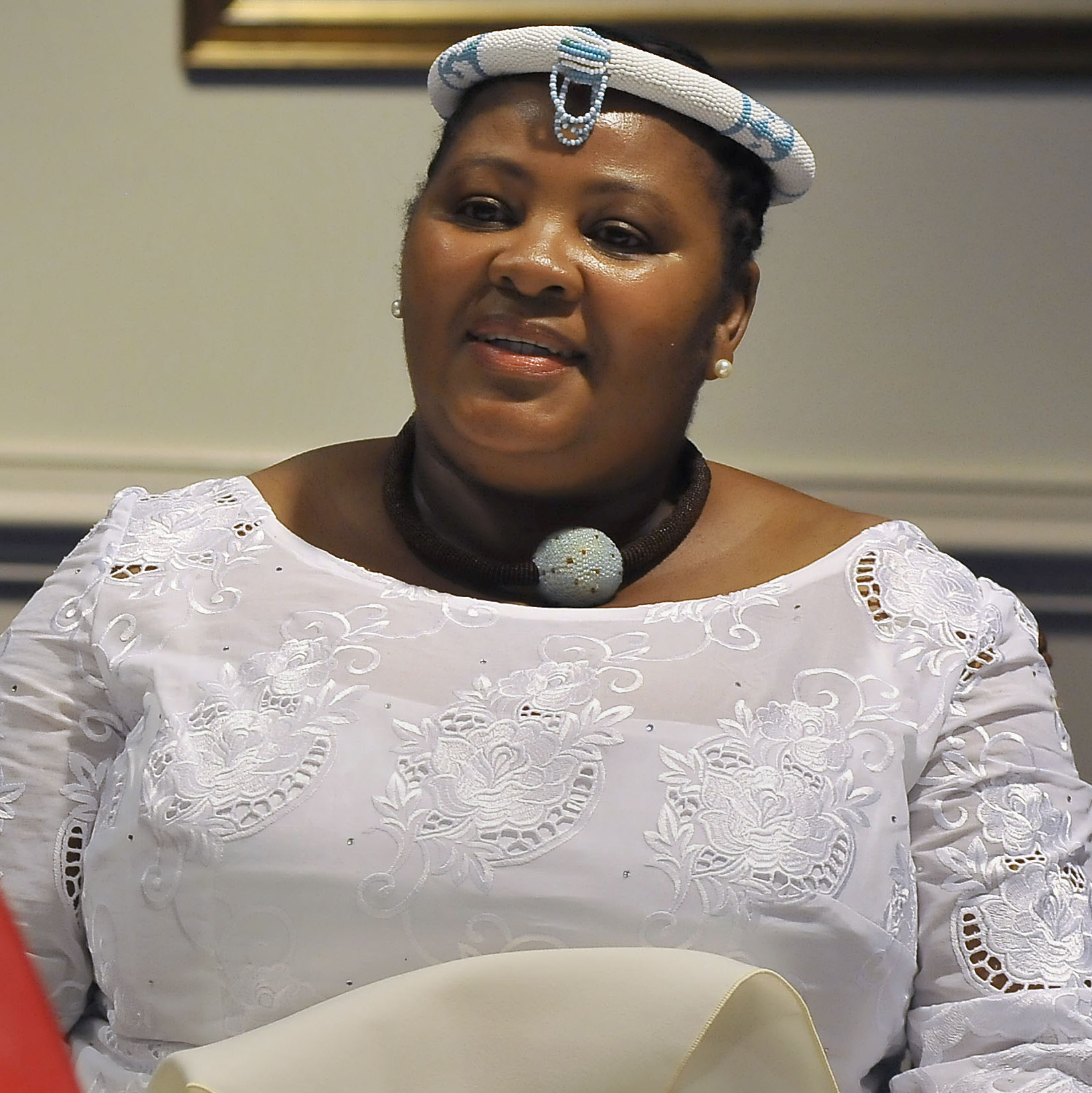 South Africa's Minister of Defense Nosiviwe Mapisa-Nqakula speaks with Secretary of Defense Leon E. Panetta as they sit down to meet at the Pentagon Sept. 12, 2012.